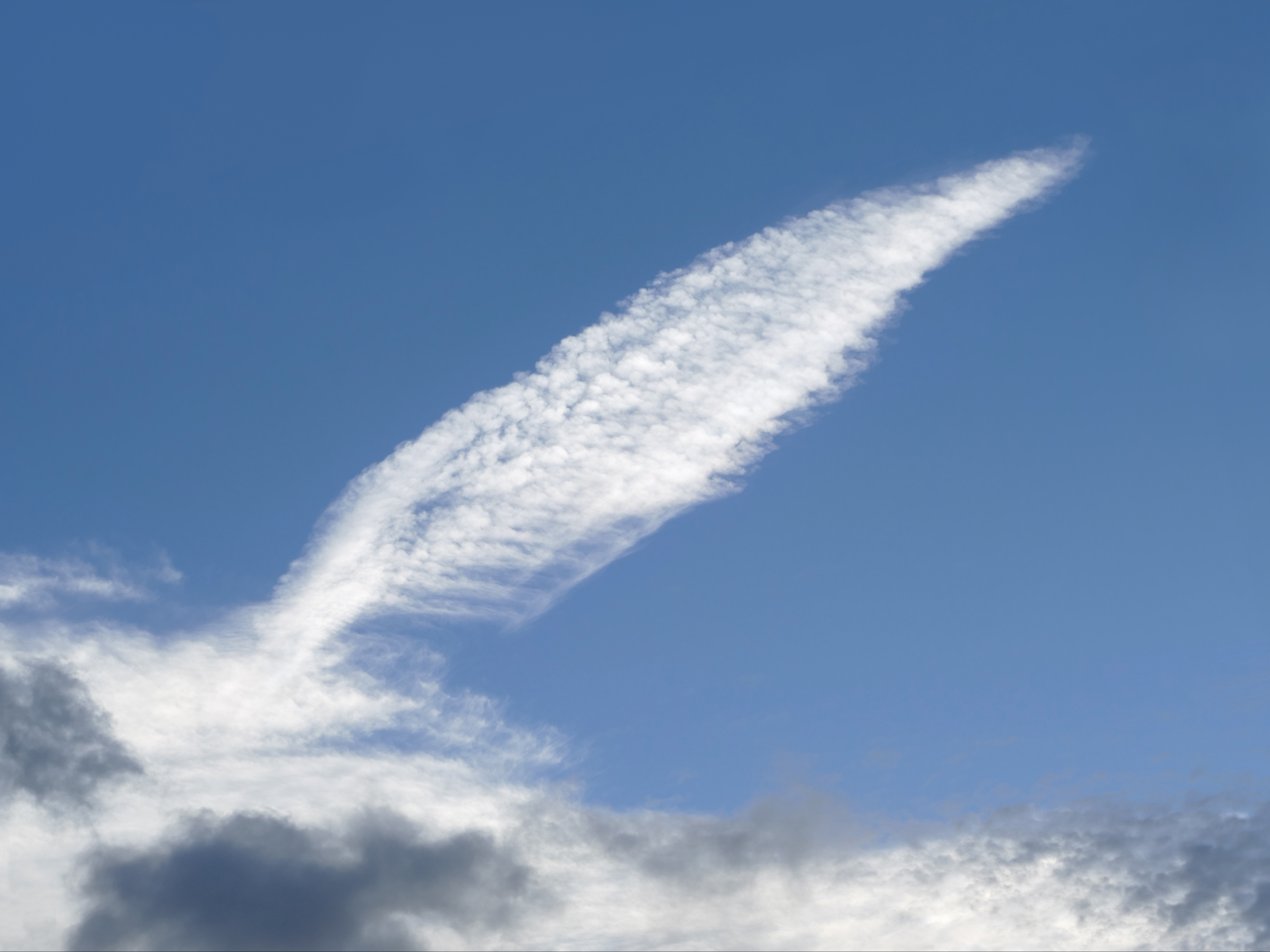 Quill-shaped cirrus cloud over Gåseberg, Lysekil municipality, Sweden. The sun is setting behind and to the right of the cloudbank, illuminating the "quill" while some of the lower clouds are in shadow at the time so they appear dark.